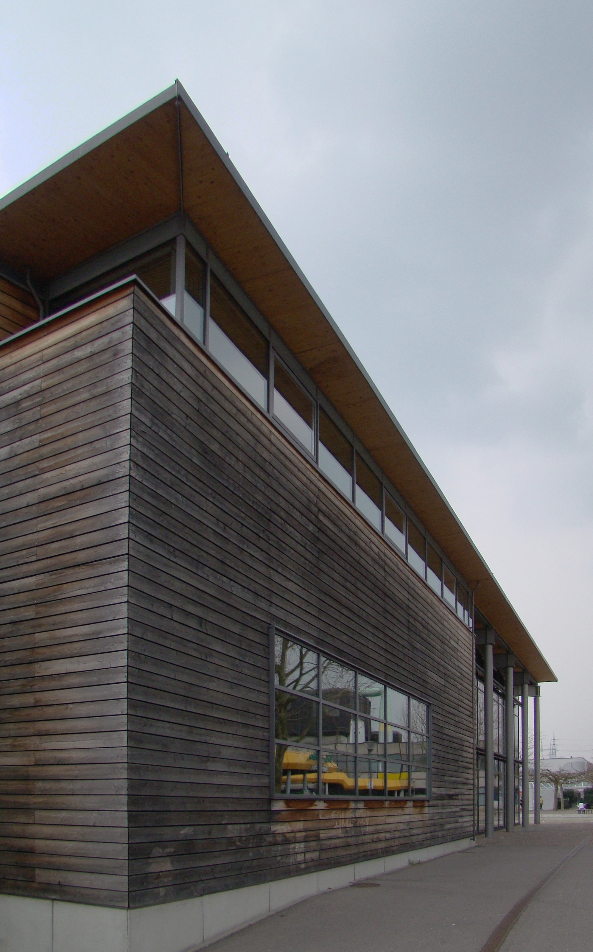 Freiberg am Neckar, community civic hall Prisma Freiberg am Neckar, kommunales Veranstaltungszentrum Prisma